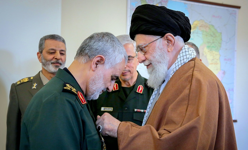 Qasem Soleimani received Zolfaghar Order from Ali Khamenei